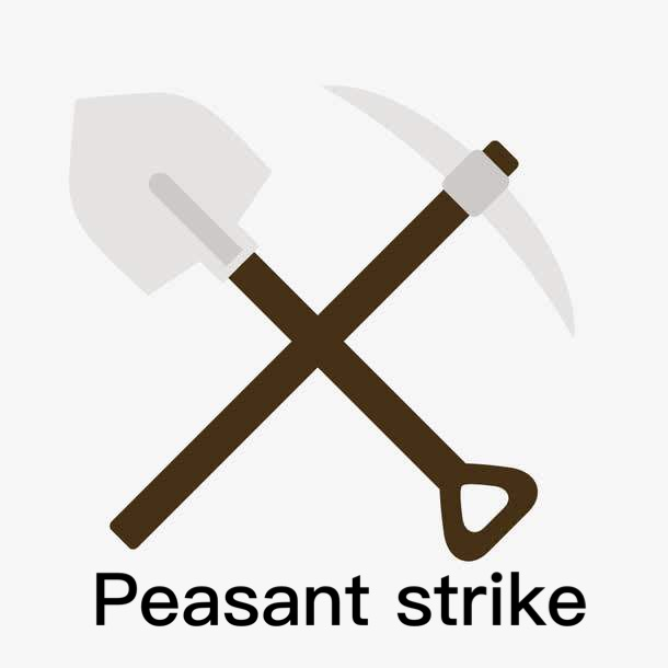 This is a symbol of peasant